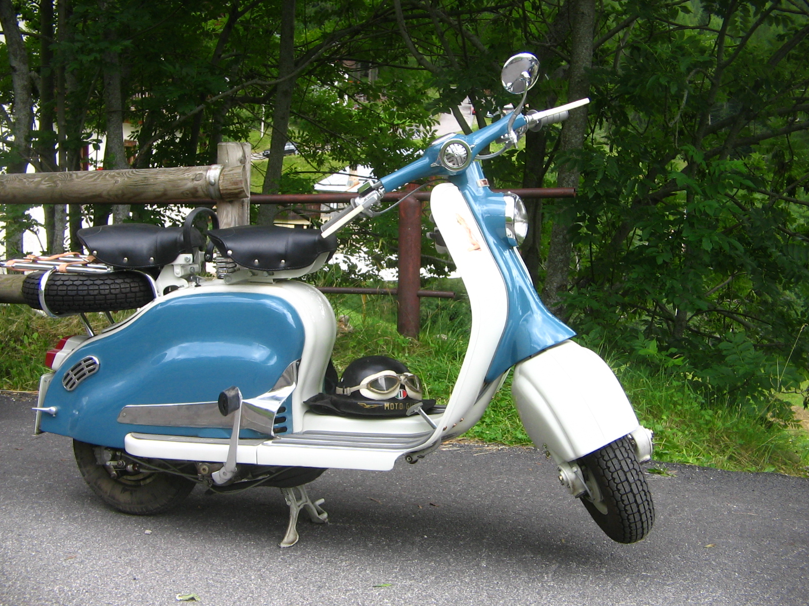 Lambretta model 150 ld, right side, with a Guzzi helmet